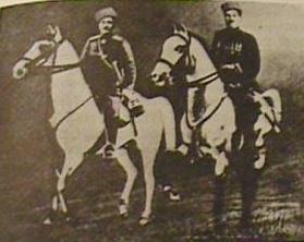 General Andranik and General Smbat (Makhluto) on horseback